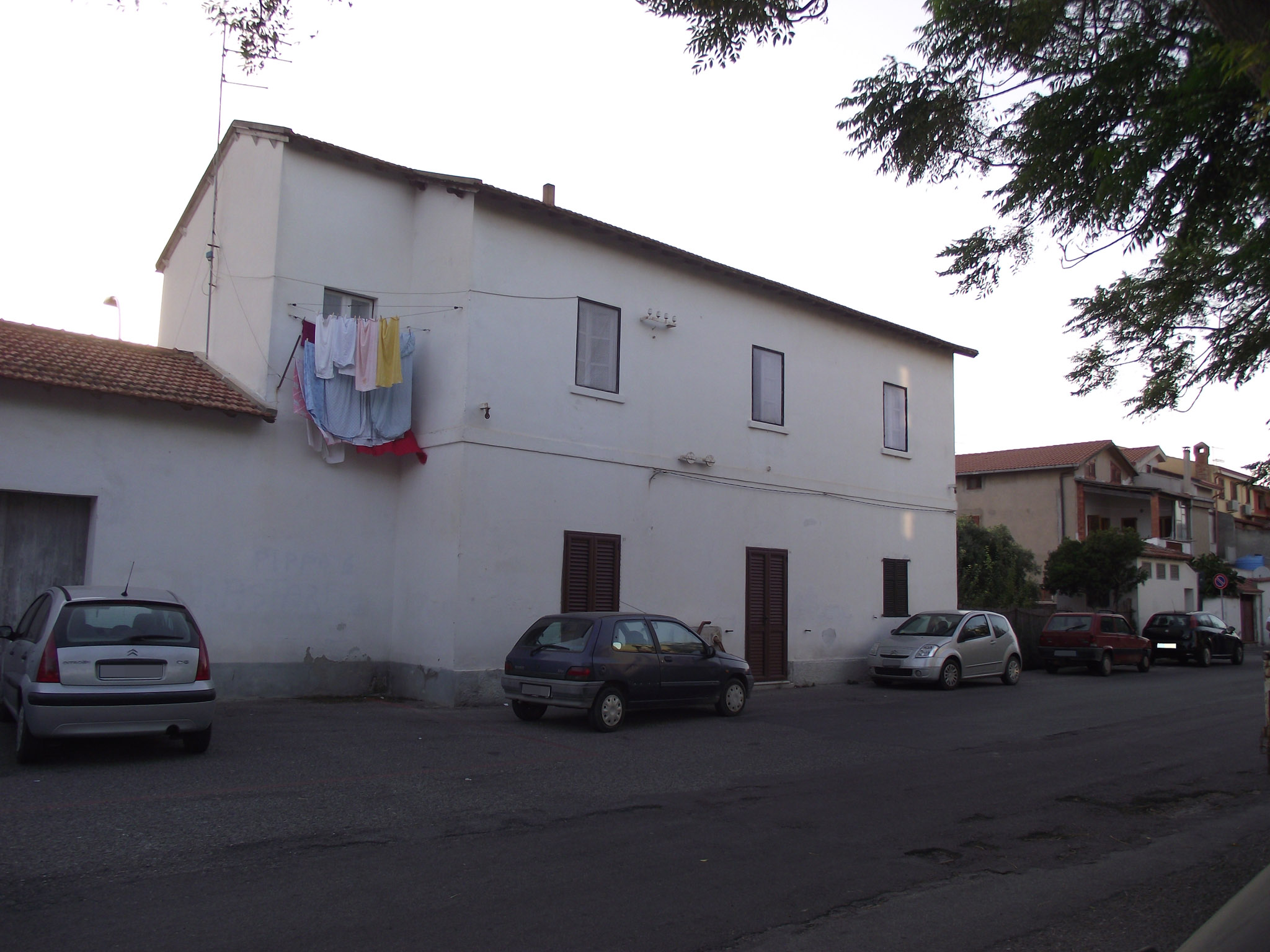 The passenger building of the former Sant'Antioco train station, in Sant'Antioco, Sardinia, Italy, in use from 1926 till 1974 along the railway Siliqua-San Giovanni Suergiu-Calasetta